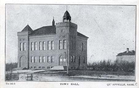 Town Hall, Qu'Appelle, circa 1910. Formerly containing the town "opera house" as well as the civic bureaucracy, the town hall building survives as the town library.